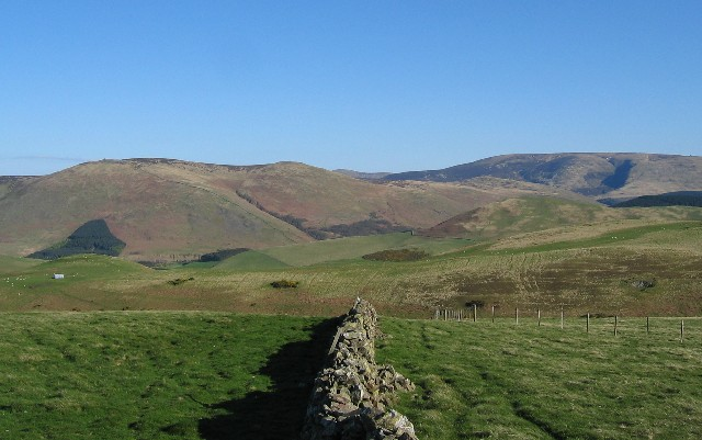 View from Longknowe Hill. Looking south east towards Newton Tors, the hill on the right skyline is The Cheviot.